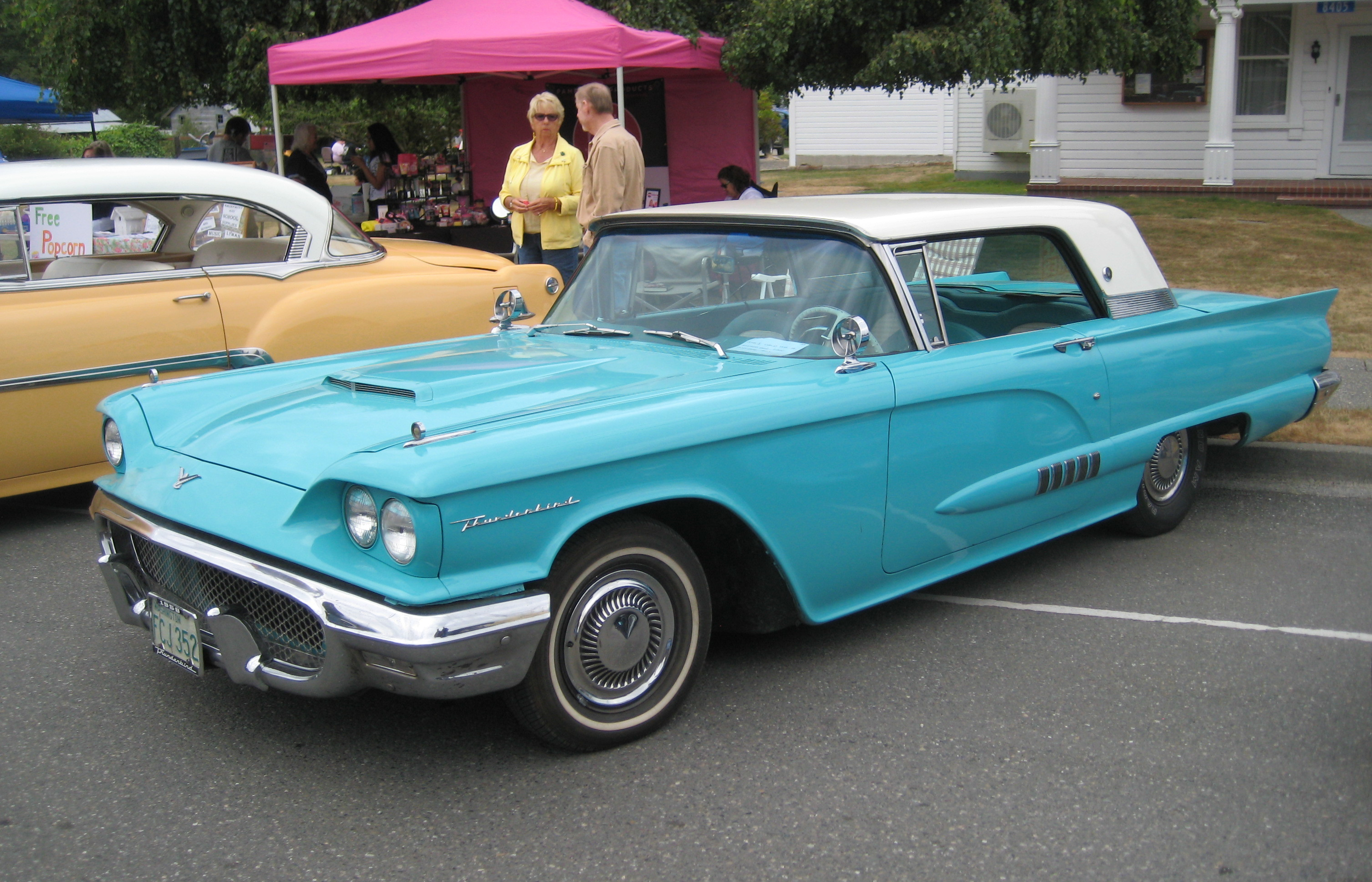 Annual car show in Lyman, Washington